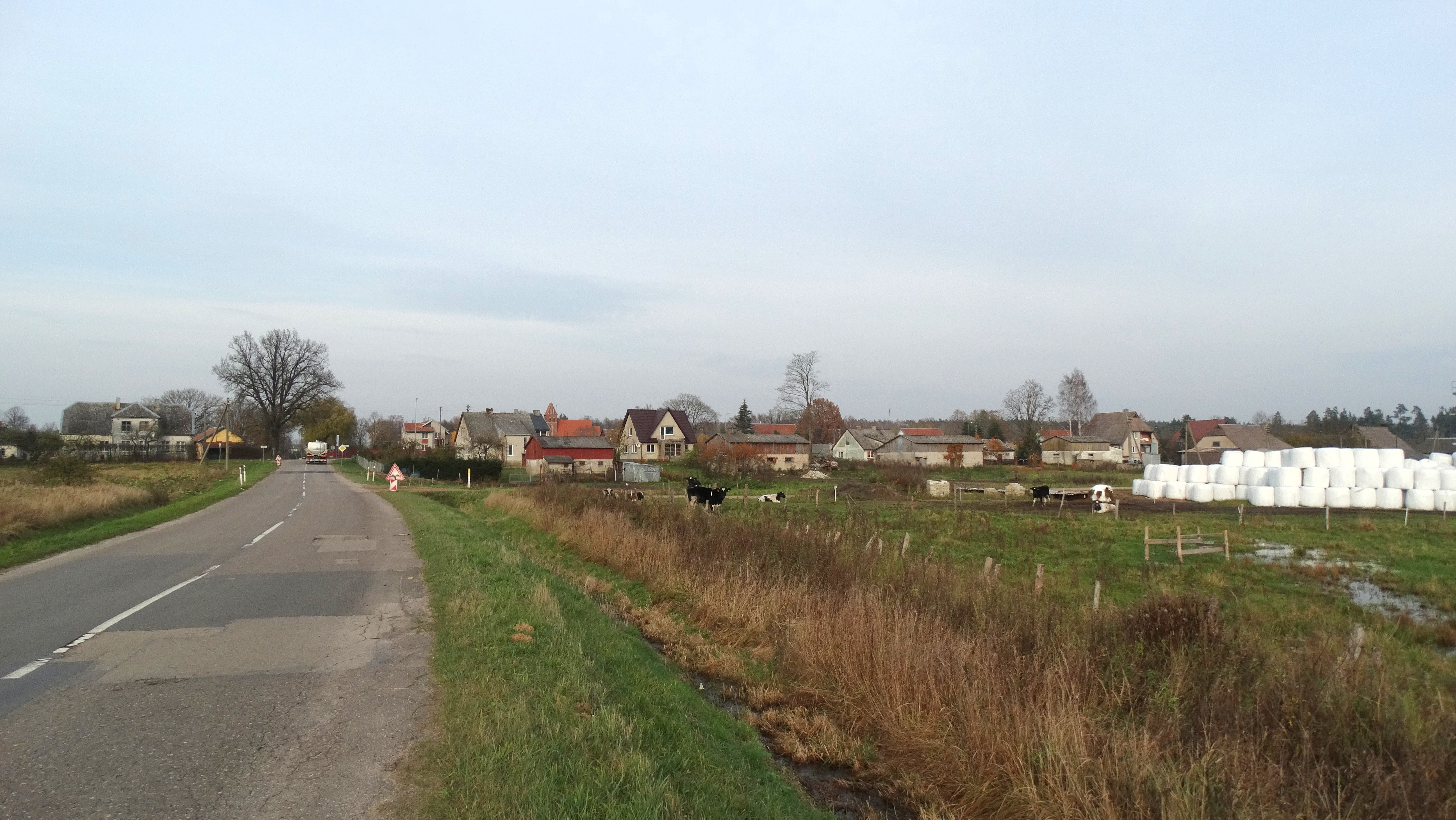 Žukai, Pagėgiai Municipality, Lithuania